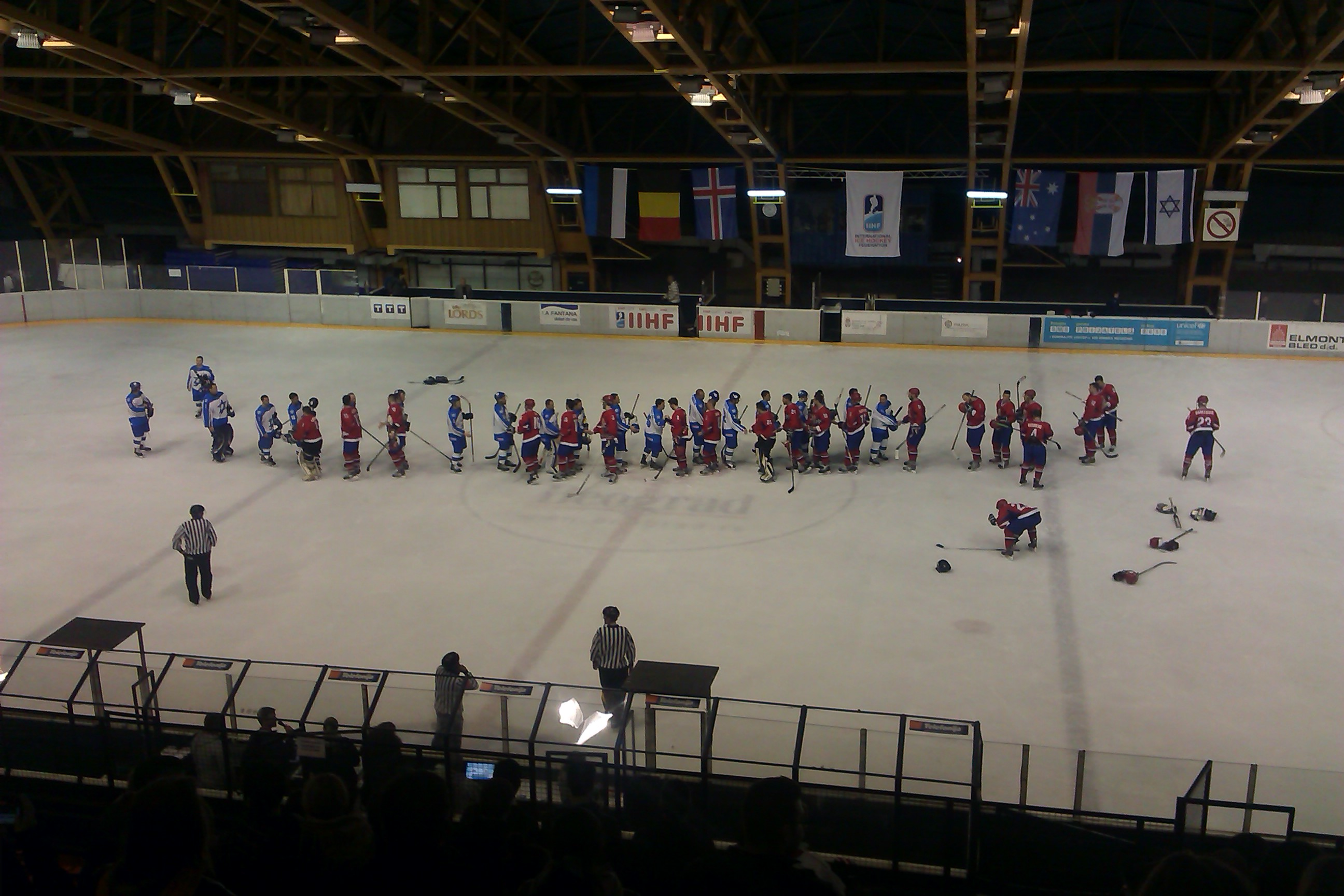 2014 IIHF World Championship Division II Serbia - Israel 10:6 in Belgrade 10. april 2014Српски (ћирилица): Светско првенство у хокеју на леду 2014 — Дивизија II, Србија - Израел 10:6 у Београду 10. априла 2014